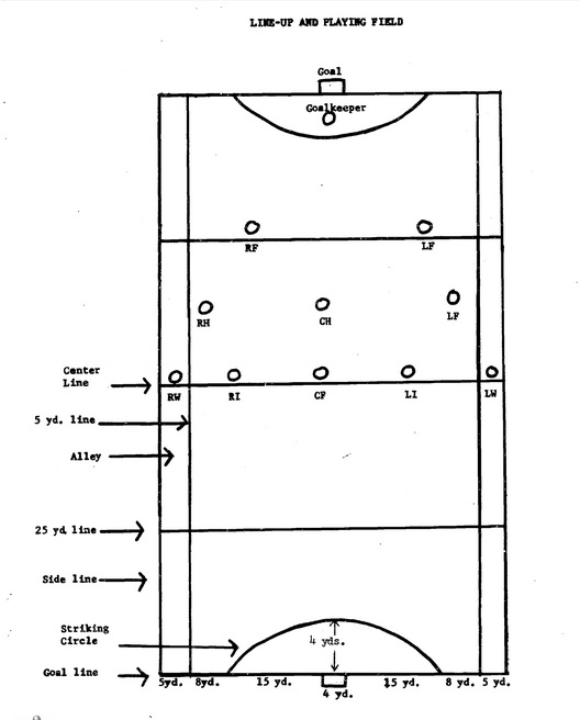 Lineup and playing field of a standard game.